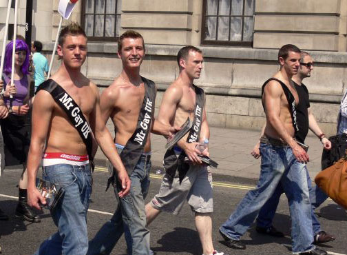 Several winners of Mr Gay UK marching at Euro Pride 2006, London.